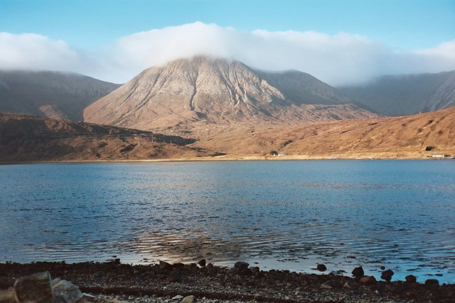 Beinn Dearg Mhor. Taken from across Loch Ainort